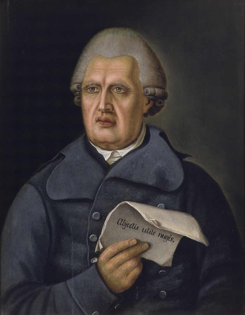 Henrik Gabriel Porthan, professor and librarian of the Academy of Turku